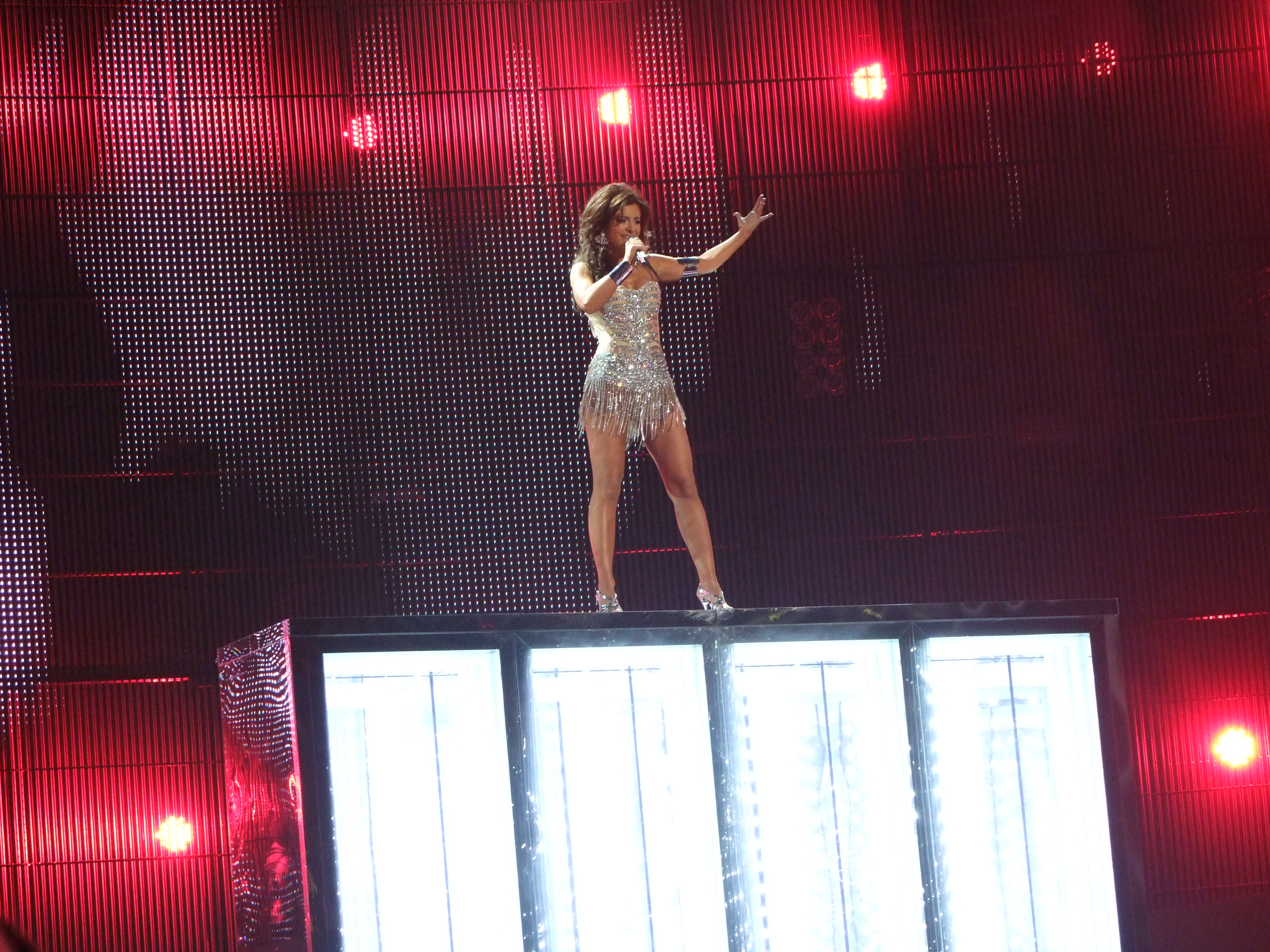 Ani Lorak performing "Shady lady" at Eurovision, 2008.